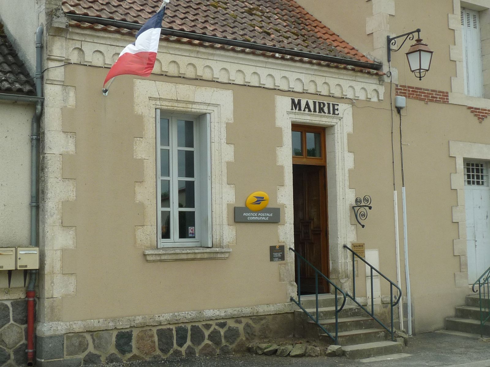 town hall